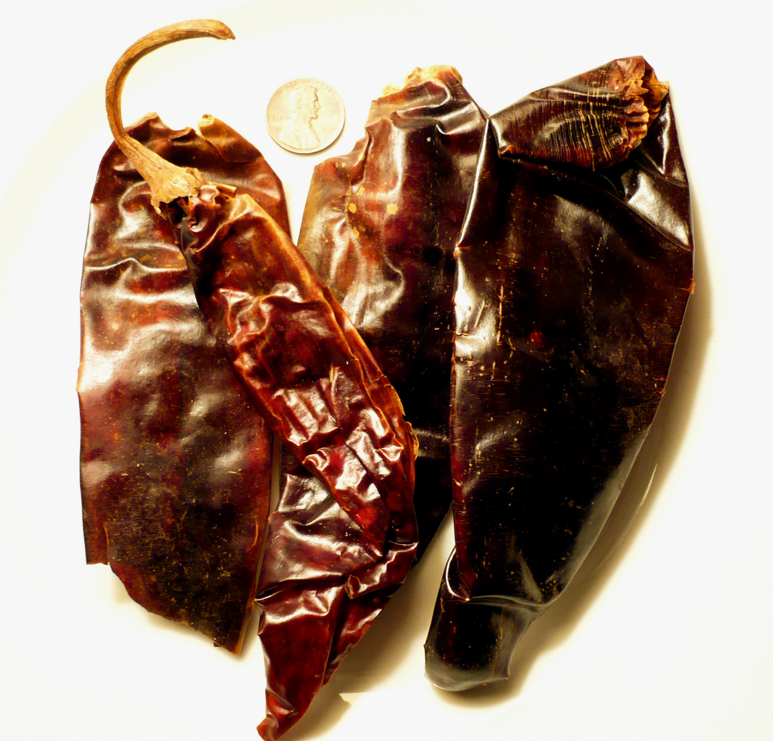 Several dried guajillo chilis, with a United States penny for comparison. Photo taken in Kent, Ohio with a Panasonic Lumix digital camera (model DMC-LS75). Guajillo chilis purchased in a northeast Ohio-area Mexican grocery store.